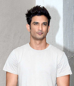 Sushant Singh Rajput snapped at the promotions of 'M.S. Dhoni - The Untold Story'